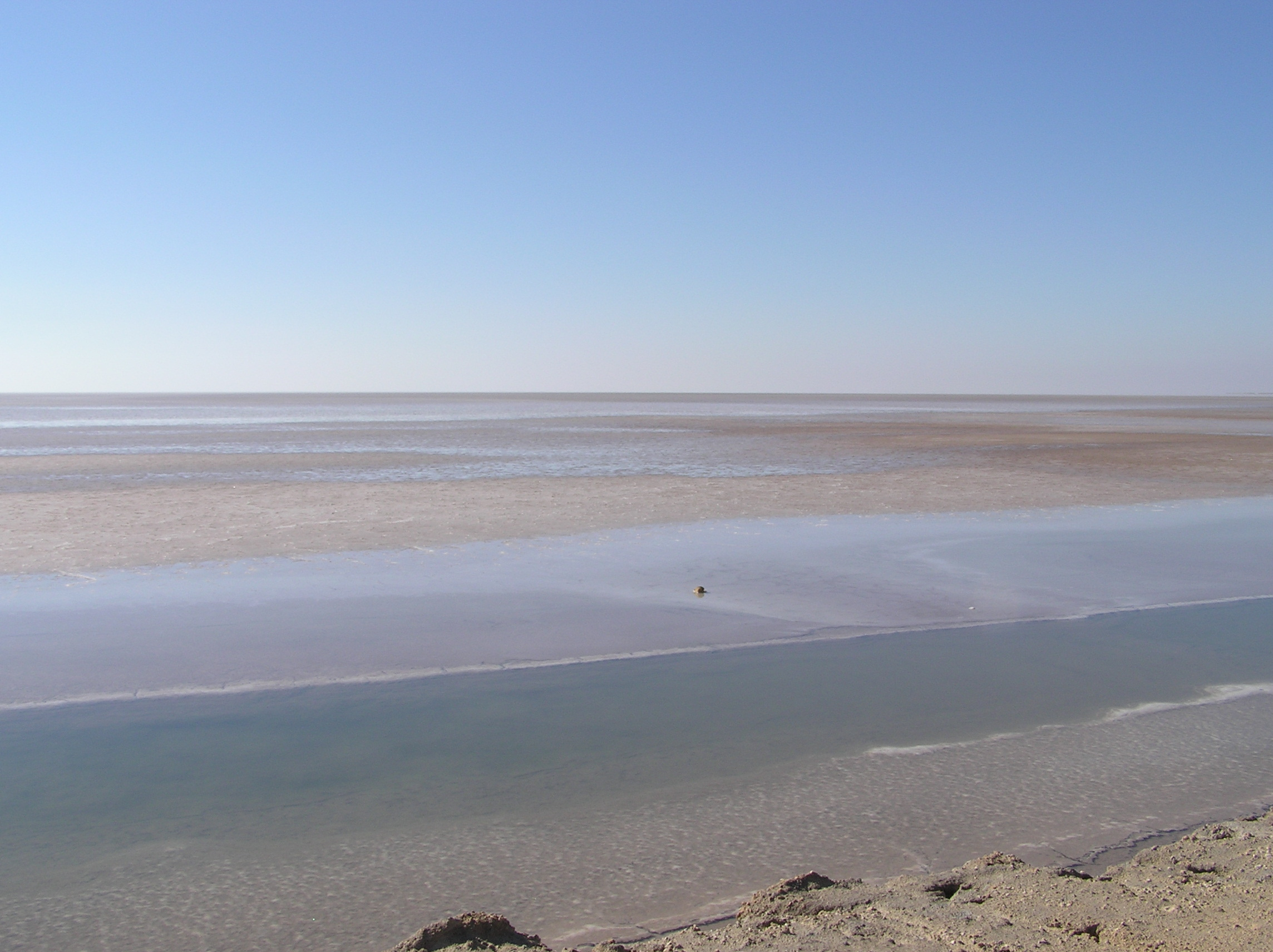 The Chott El Djerid in Southern Tunisia, the second biggest salt desert on earth